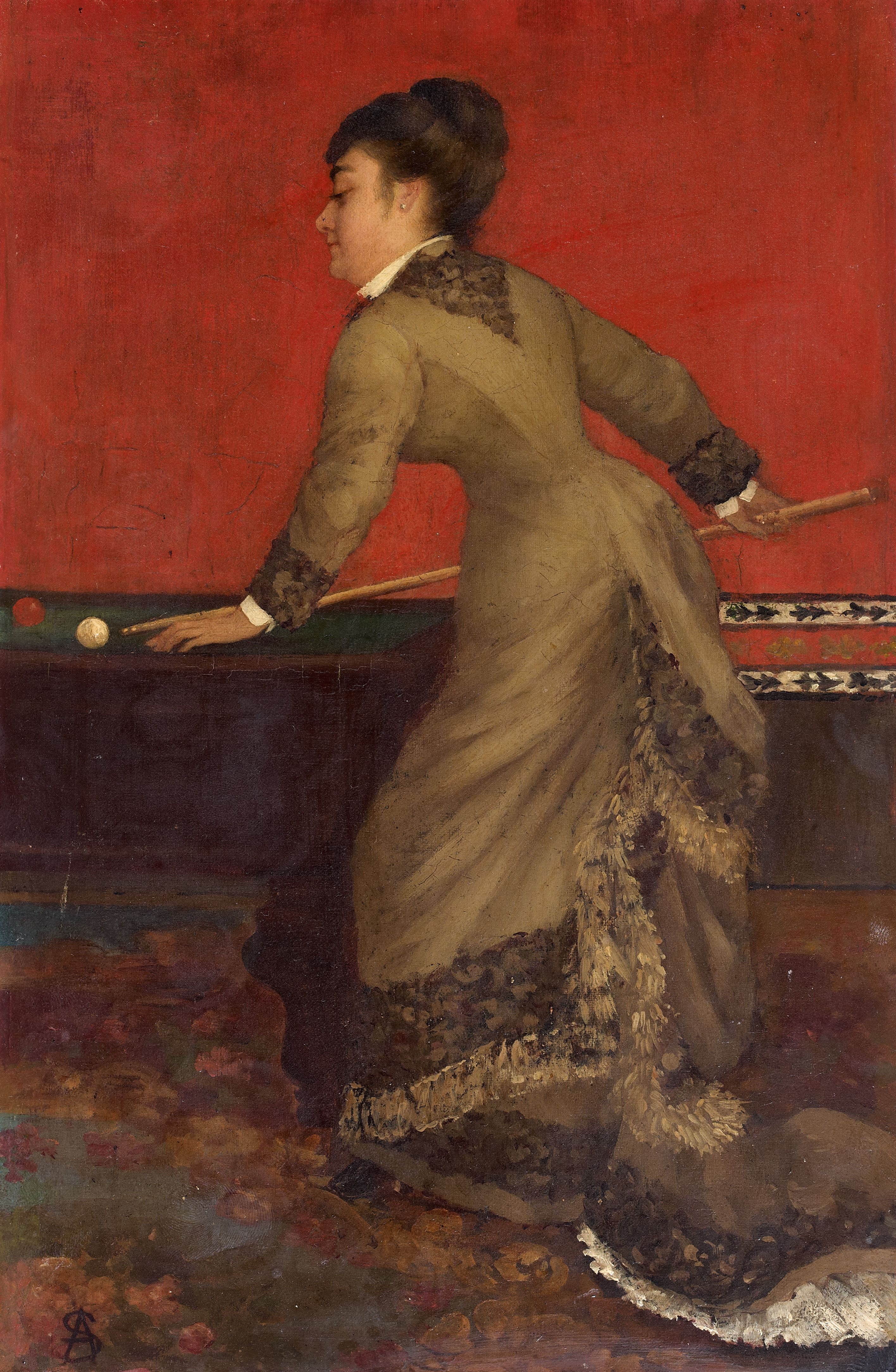 ('Elegant at Billiards'), A Victorian aristocratic woman playing carom billiards. .